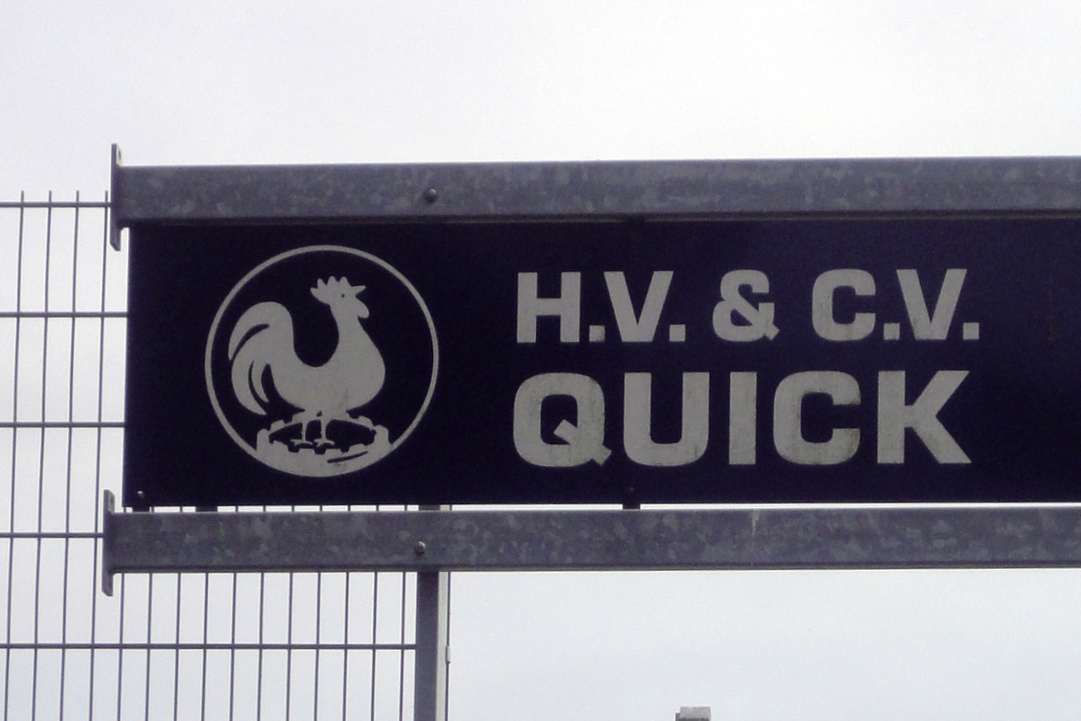 field of soccer and cricket club Quick